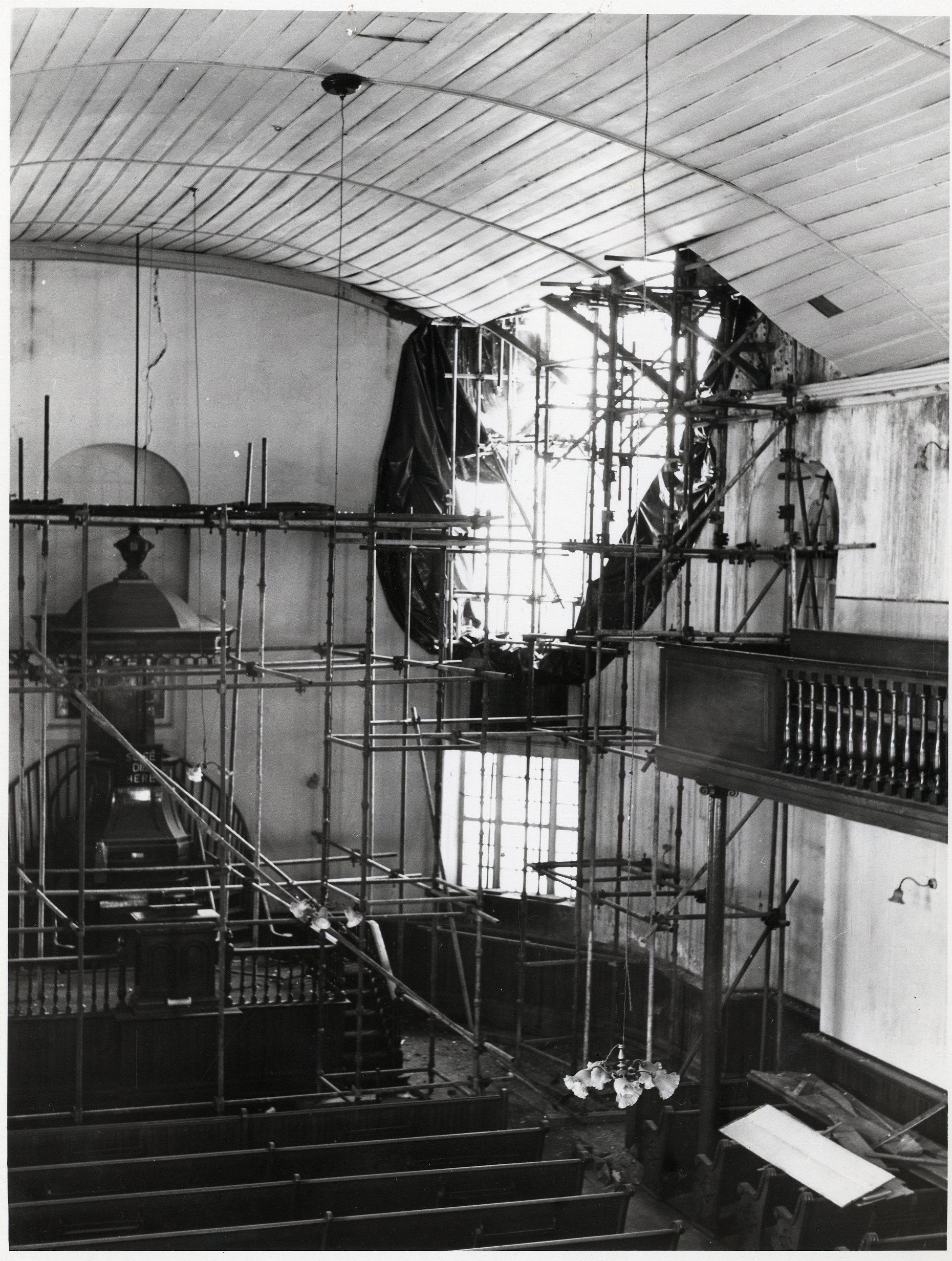 Taken during the restoration of the Sendinggestig building